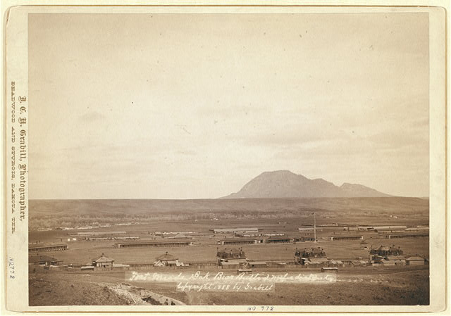 Bird's-eye view of Fort Meade, South Dakota military camp buildings; Bear Butte in background.